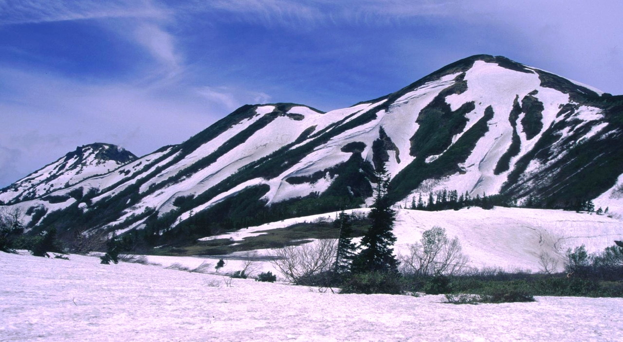 Yakeyama_and_Mount_Hiuchi